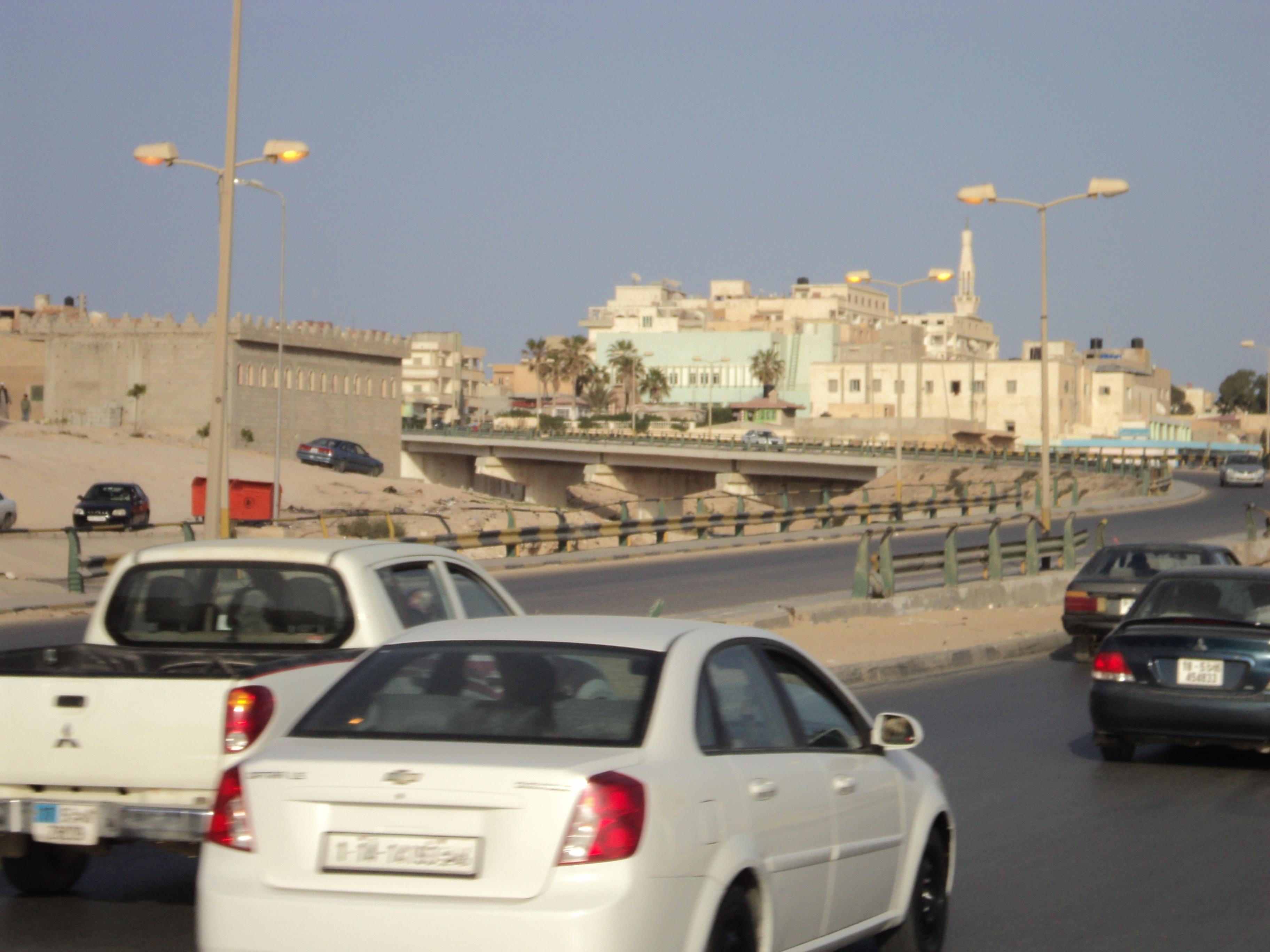 The Libyan city of Tobruk.